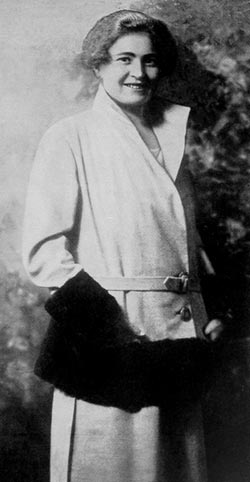 Young Rachele Guidi Mussolini, likely early 20th century.